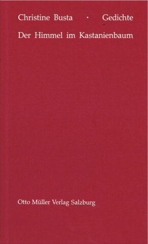 Book cover of Christine Busta "Der Himmel im Kastanienbaum" 1989